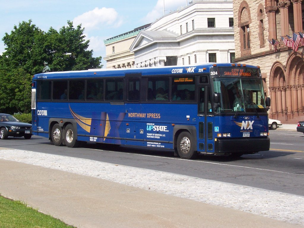 Capital District Transportation Authority/Upstate Tours LLC #324 in downtown Albany in special CDTA NX branding, operating Evening Run 1 to Saratoga Springs.